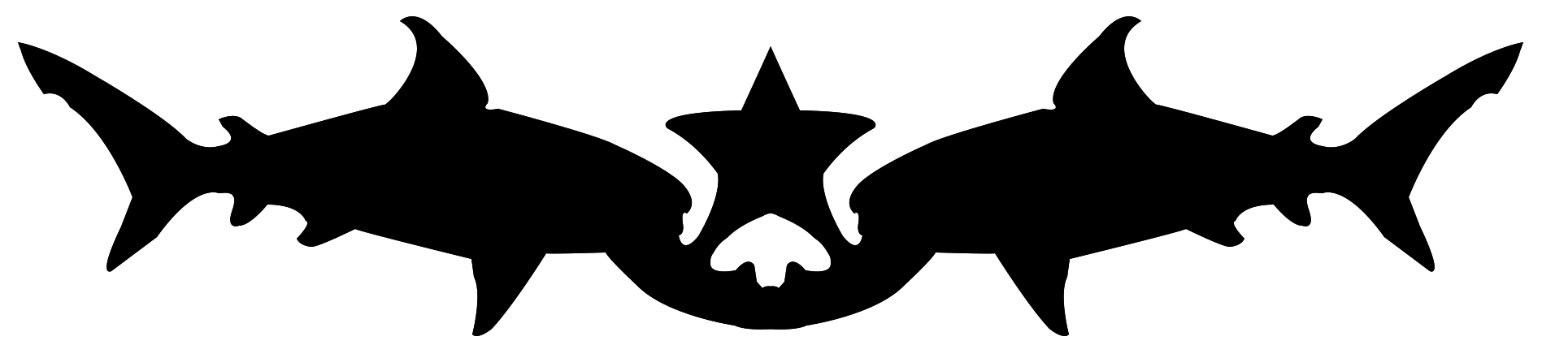 Insignia of Brazilian Combat Divers (GRUMEC)